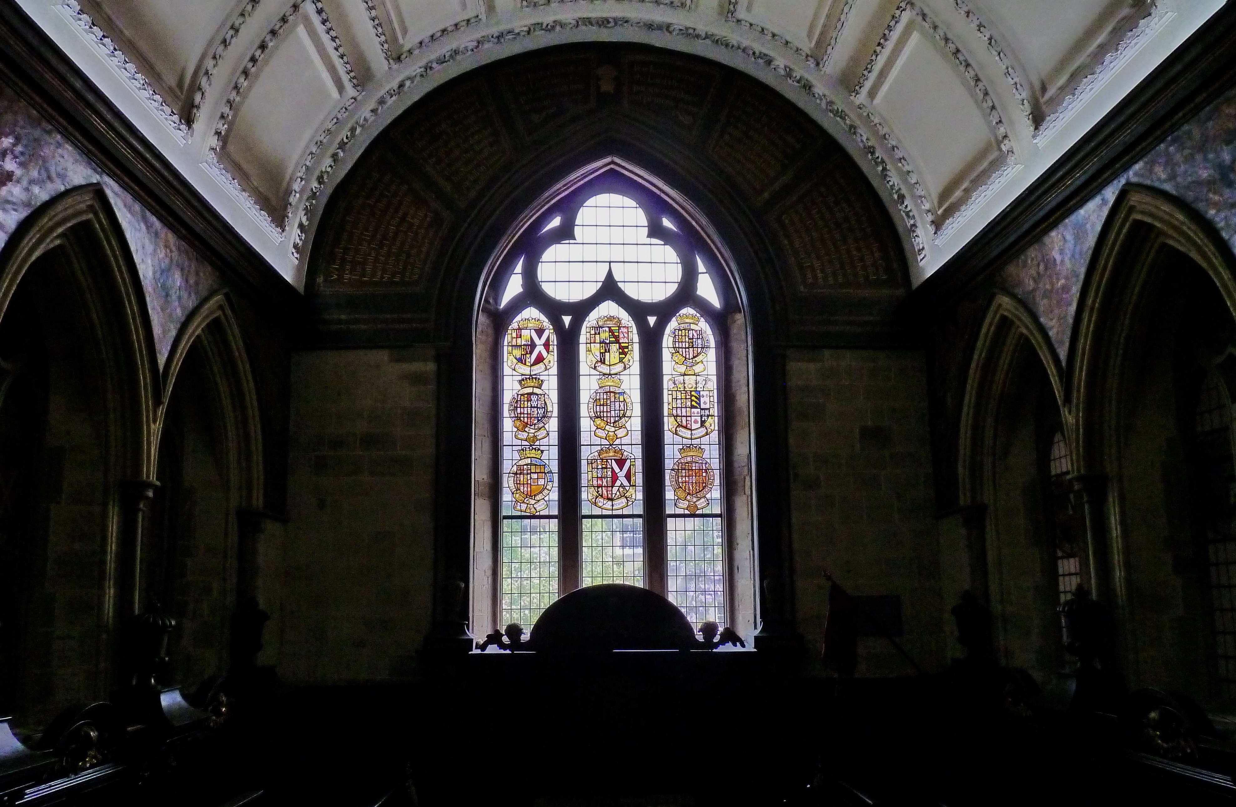 17th century Percy Window in Petworth House, Sussex, displaying in stained glass 9 heraldic escutcheons of arms of Percy Earls of Northumberland, each impaling the arms of his wife and where appropriate circumscribed by the Garter: Top row, left: Henry Percy, 1st Earl of Northumberland (1341–1408), impaling Neville Top row, middle: Henry Percy, 3rd Earl of Northumberland (1421–1461), son of 2nd Earl, impaling Poynings Top row, right: Henry Percy, 4th Earl of Northumberland (1449–1489), KG, son of 3rd Earl, impaling Herbert Middle row, left: Henry Algernon Percy, 5th Earl of Northumberland (1478–1527), KG, son of 4th Earl, impaling Spencer of Spencer Combe in the parish of Crediton, Devon Middle row: centre: Henry Percy, 6th Earl of Northumberland (1502–1537), KG, son of 5th Earl, died without progeny; impaling Talbot Middle row, right: Sir Thomas Percy (c.1504-1537) (2nd son of Henry Percy, 5th Earl of Northumberland) and father of 7th & 8th Earls; impaling Harbottle Bottom row, left:Thomas Percy, 7th Earl of Northumberland (1528–1572), KG, eldest grandson of 5th Earl, impaling Somerset Bottom row, centre: Henry Percy, 8th Earl of Northumberland (1532–1585), brother of 7th Earl, impaling Neville Bottom row, right: Henry Percy, 9th Earl of Northumberland (1564–1632), KG, son of 8th Earl, impaling Devereux